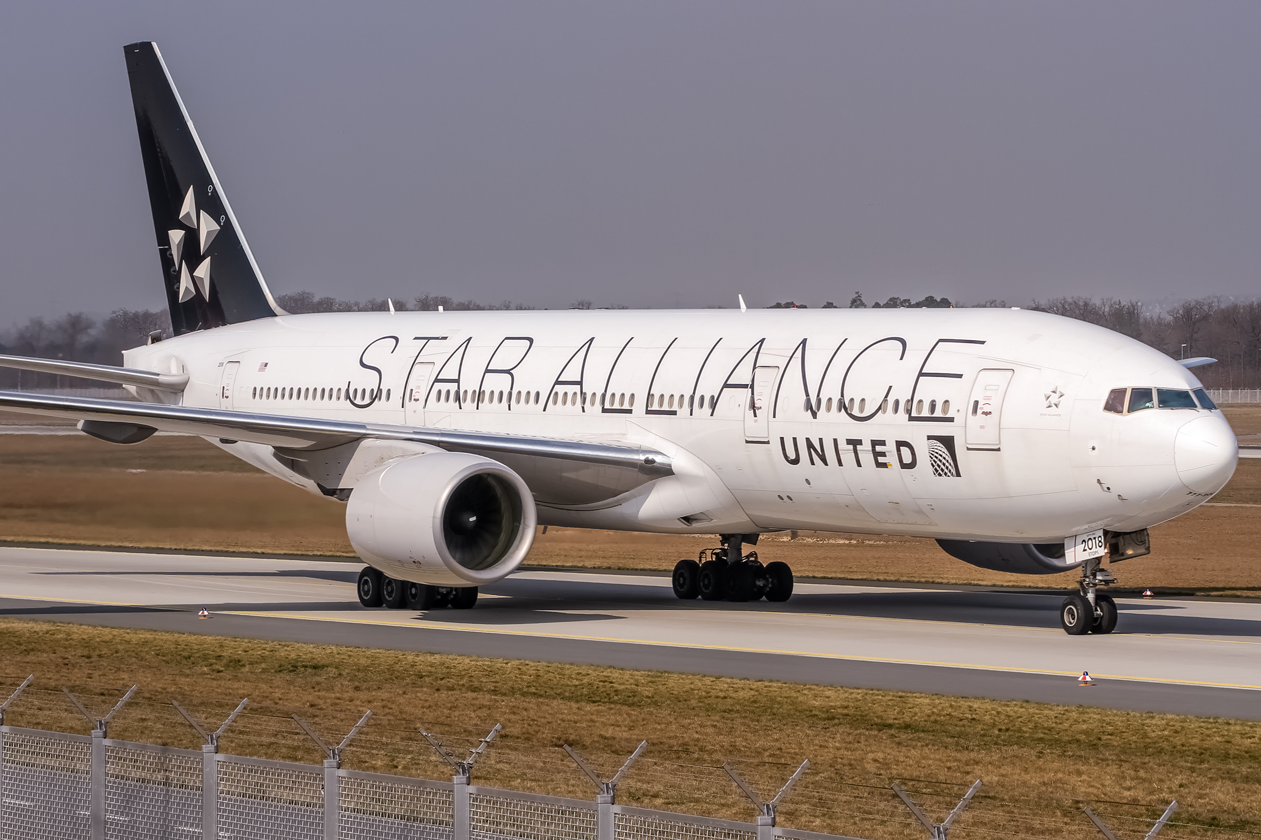 N218UA United Airlines Boeing 777-222(ER) coming in from Washington Dulles Int´l (KIAD) on Rwy25R @ Frankfurt (EDDF) / 08.04.2015